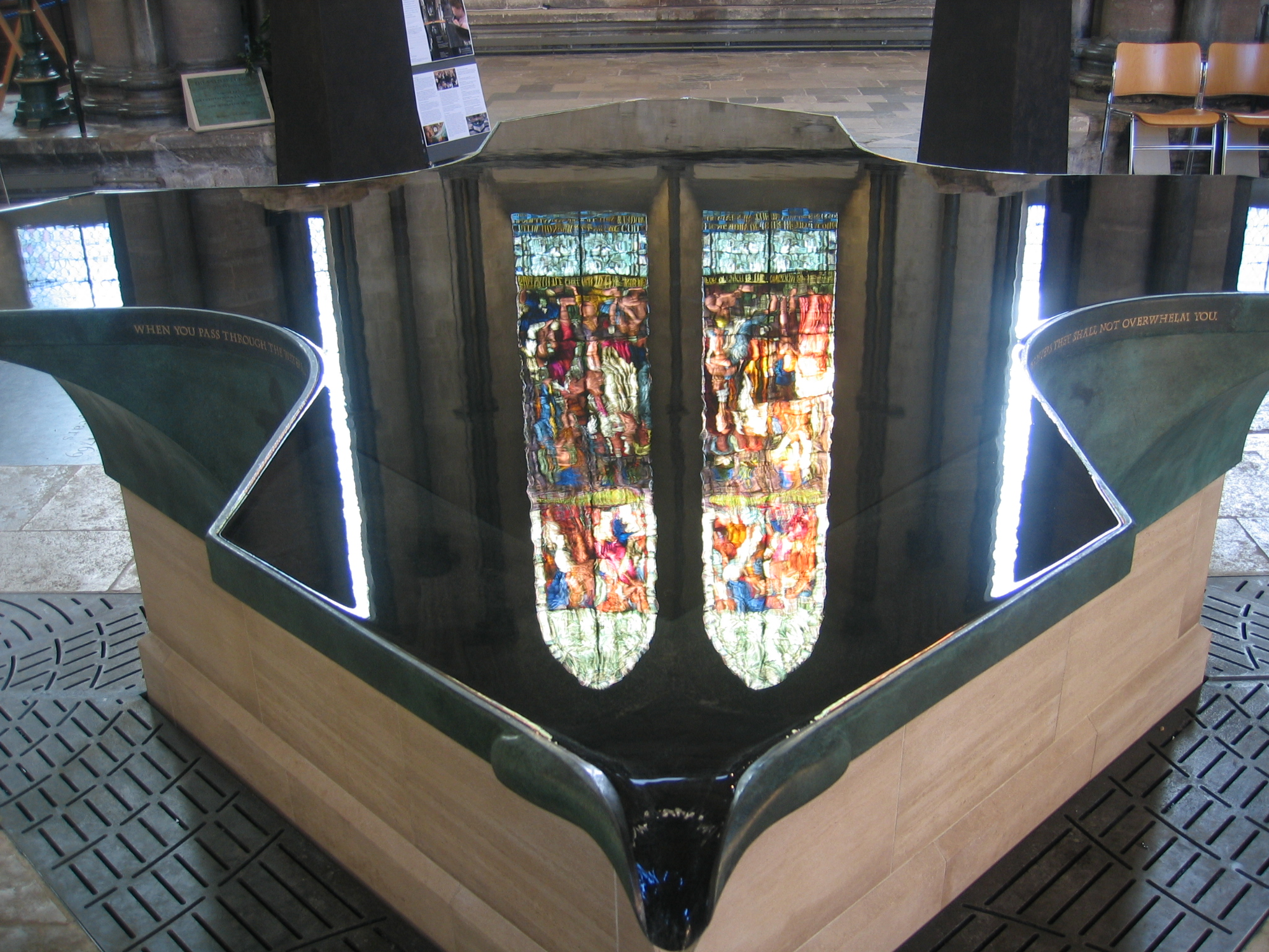 Font in Salisbury Cathedral, looking south